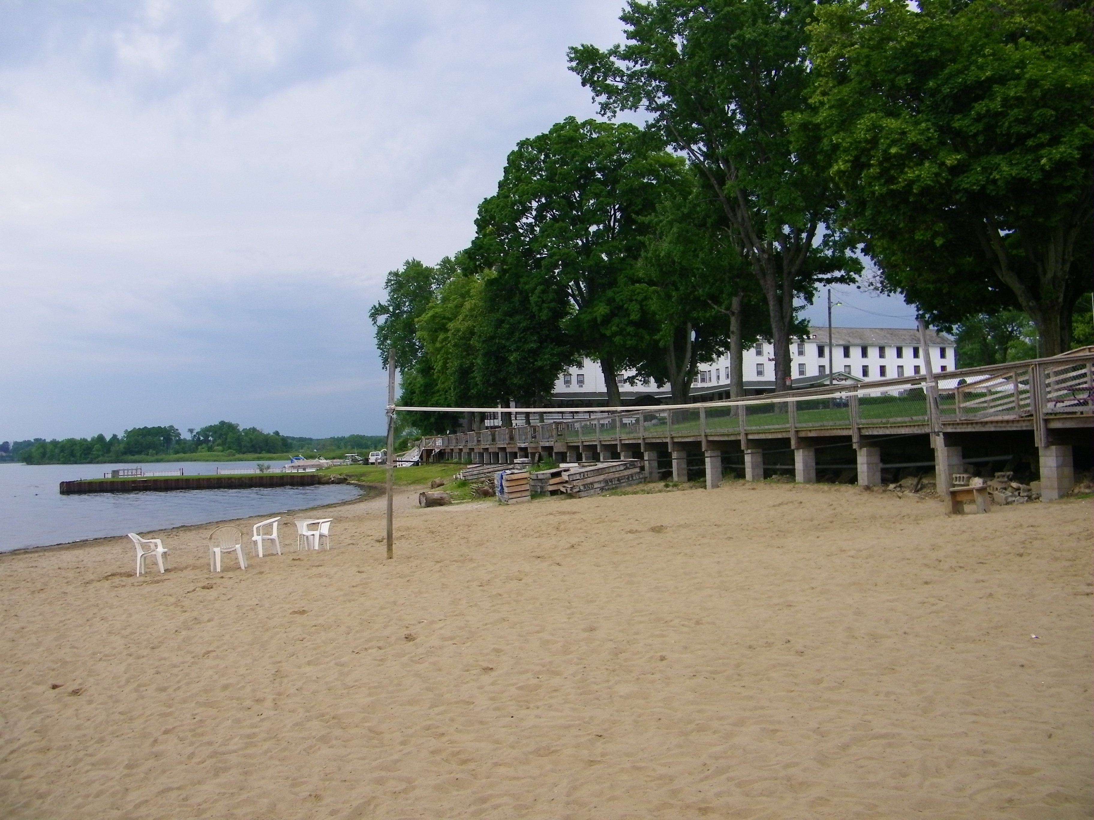 Conneaut Lake Park. We visited recently to see where my wife spent many summer weekends. There has just been another attempt to rescue the park. Lots of work ahead.